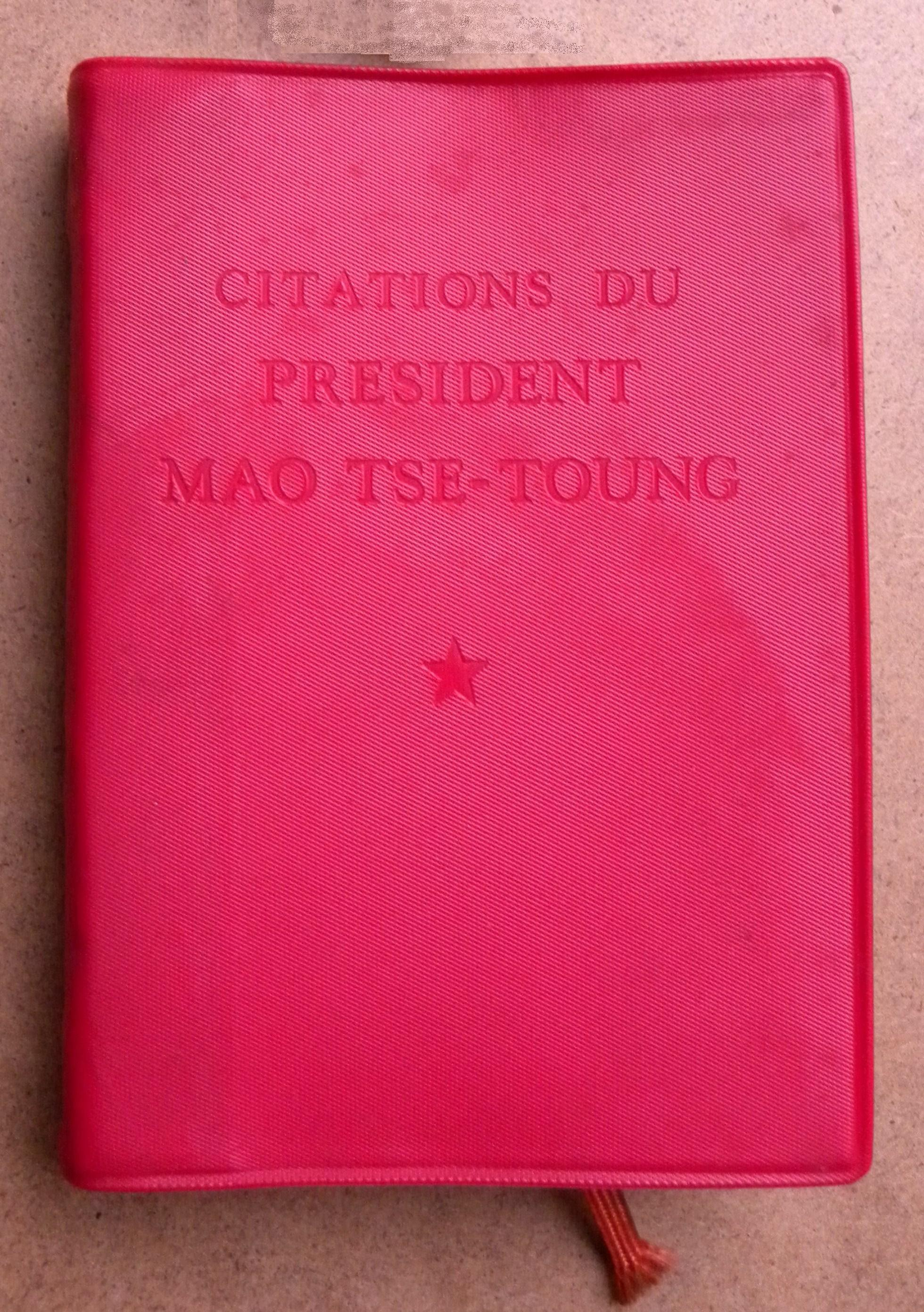 The little Red Book - Quotations from President Mao Zedong - Firts French Edition - 1966 - printed in the Peoples' Republic of China. This is a perspective look of the booklet. 95 x 134 mm 160gr